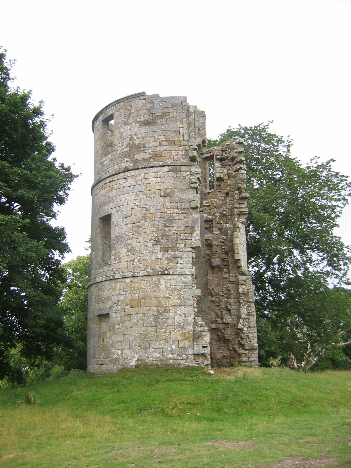 Douglas Castle, South Lanarkshire, Scotland.